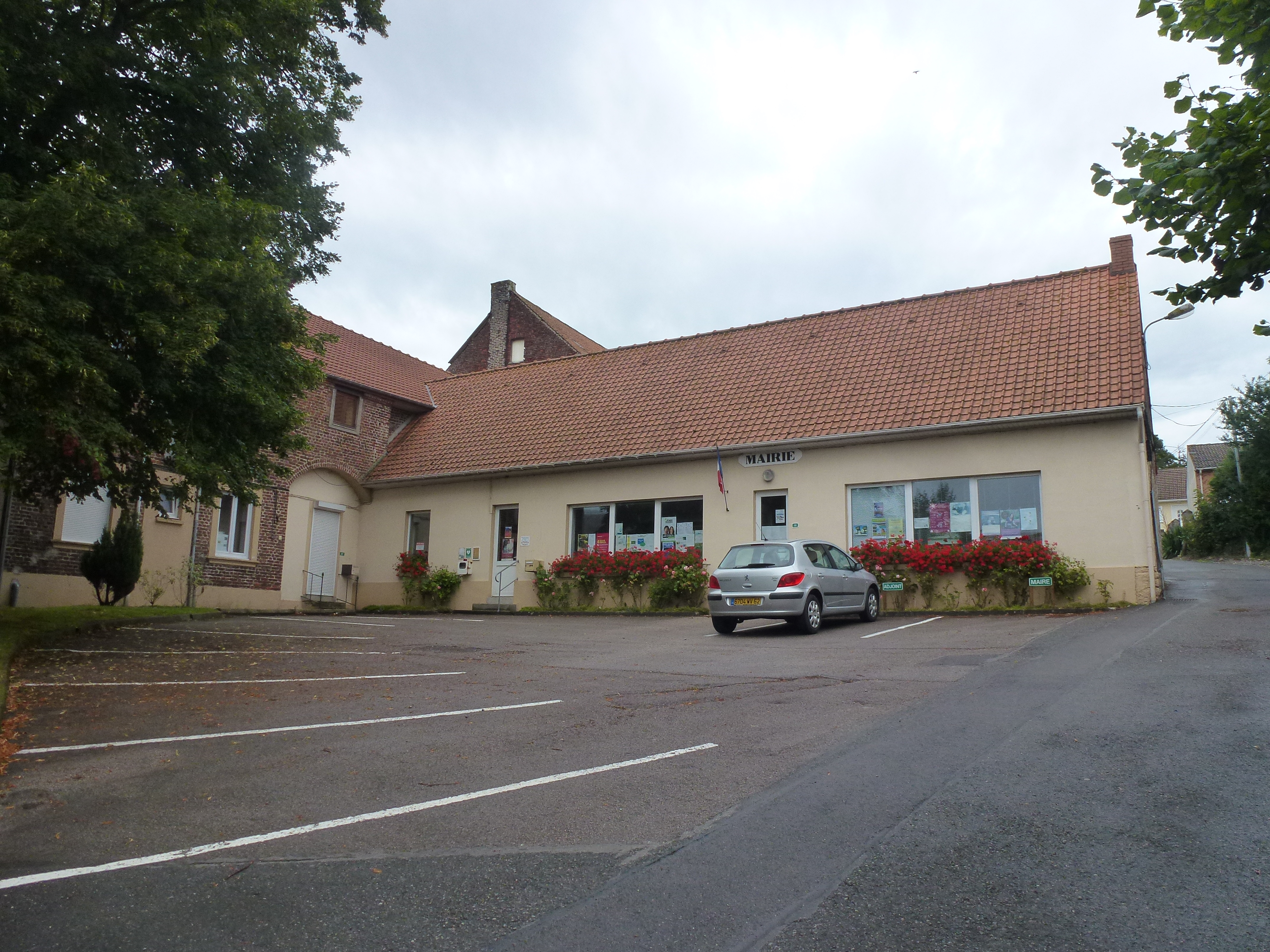 Pihen-lès-Guînes (Pas-de-Calais) mairie